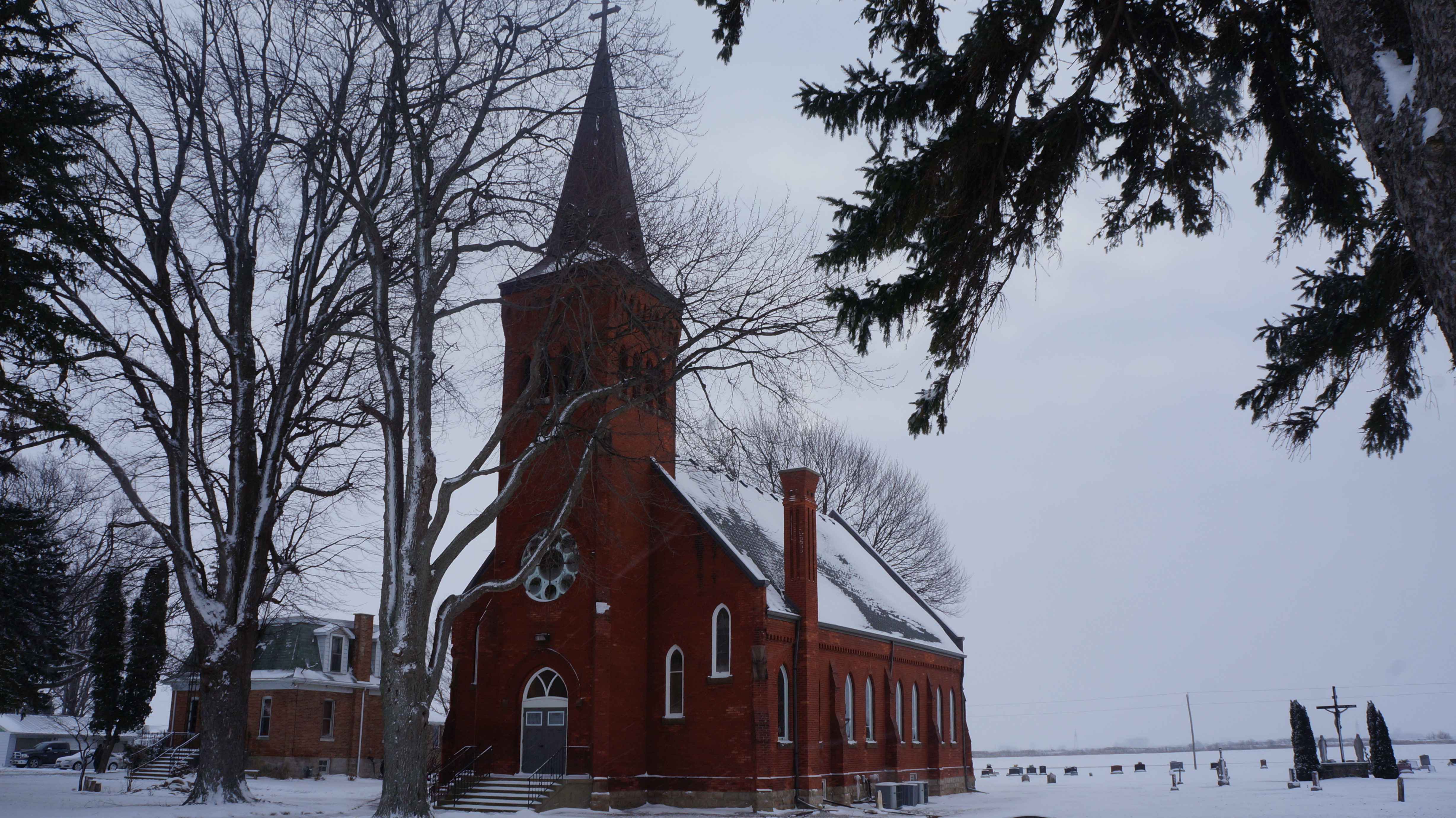 Exterior of St. Peter's Catholic Church in Tilbury East, Ontario.